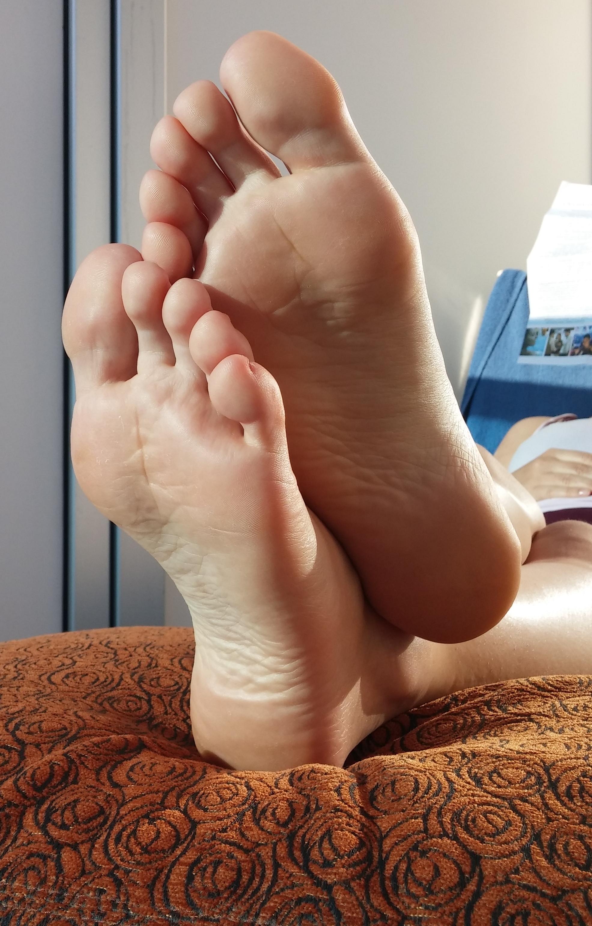 baresoles girl